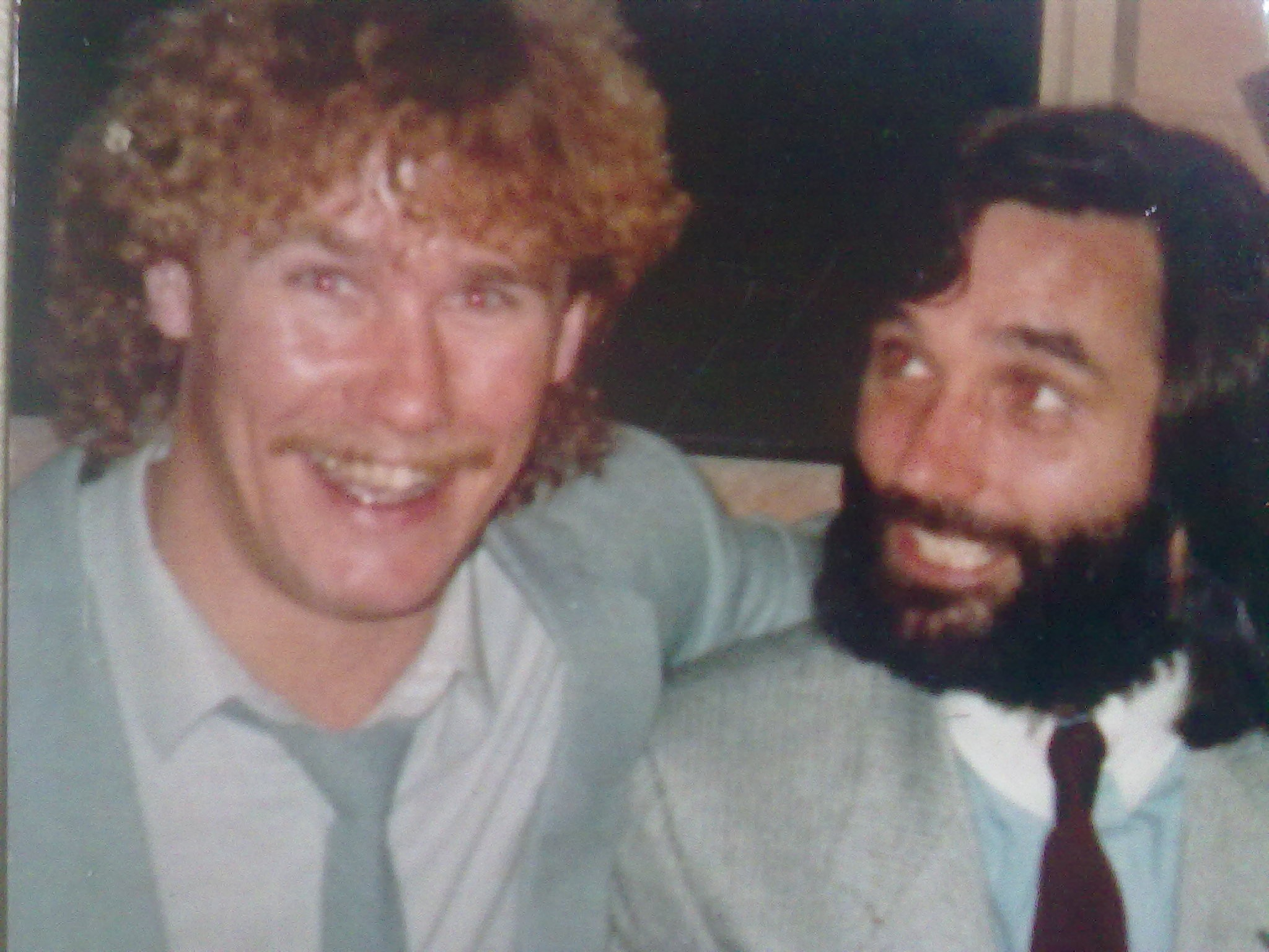 Duncan Waldman. Perth, Australia.